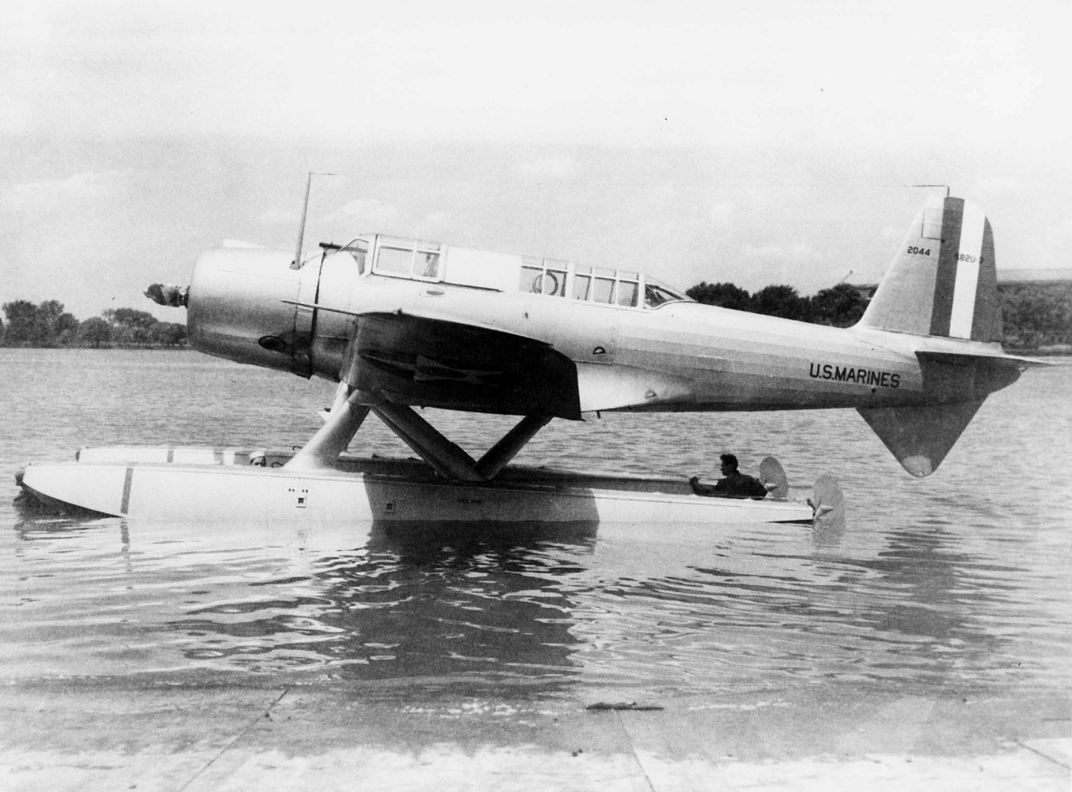 In 1939 a single Vought SB2U-1 Vindicator dive bomber (BuNo 2044) was converted as a floatplane and designated XSB2U-3.